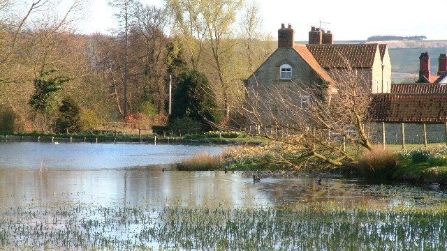 Brompton Ponds, Brompton-by-Sawdon